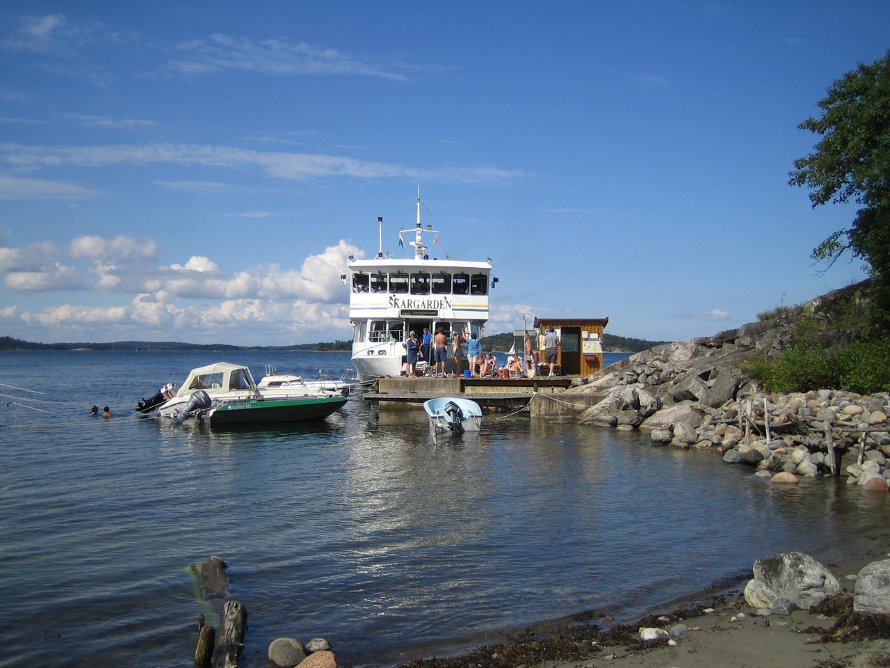 SKARGARDEN MMSI number: 265522480 Callsign: SFTJ Width:7m Length:35m